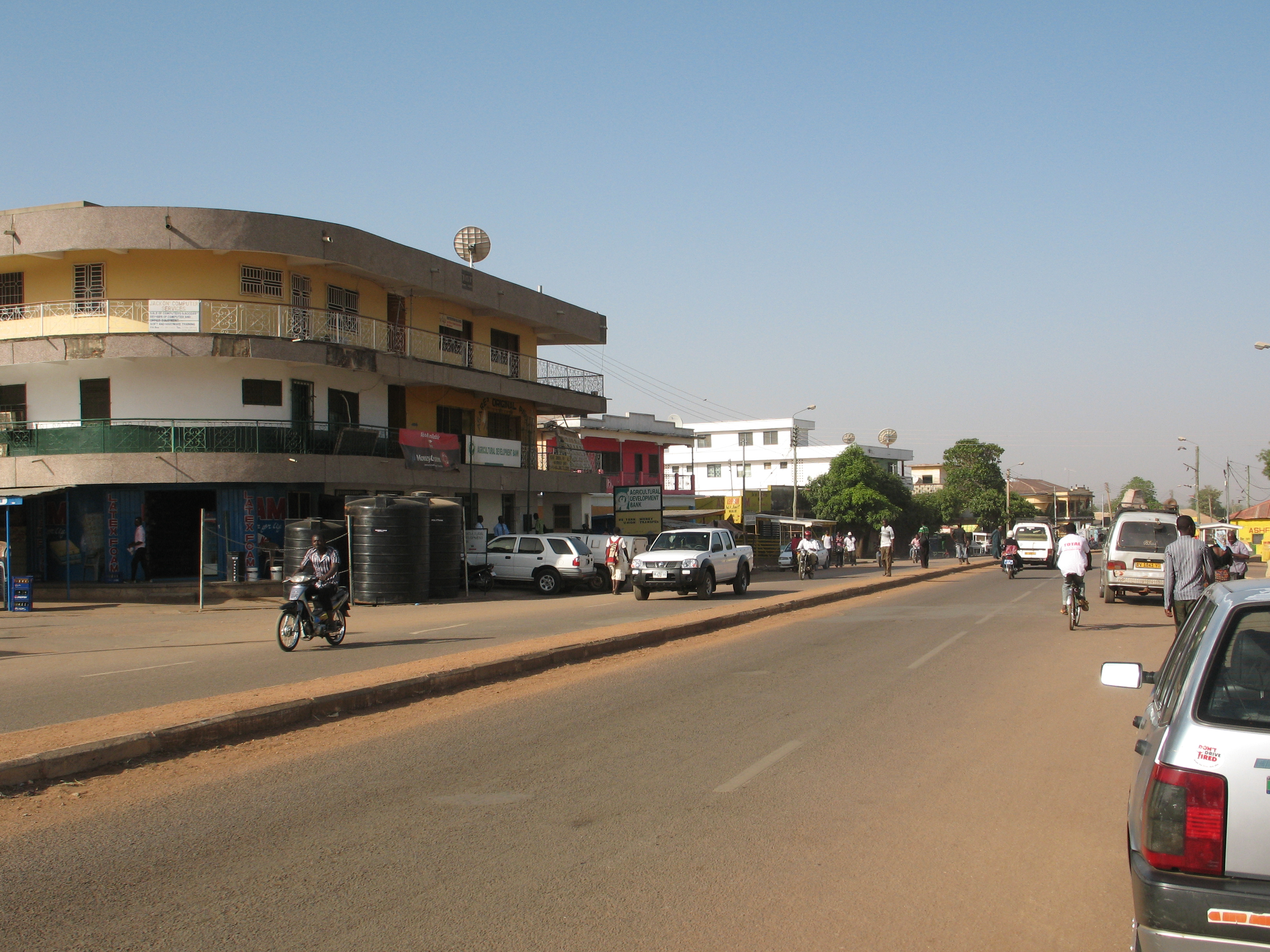 Main street of Wa (Ghana).